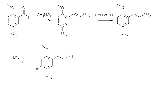 Total synthesis of 2C-B from 2,5-dimethoxybenzaldehyde